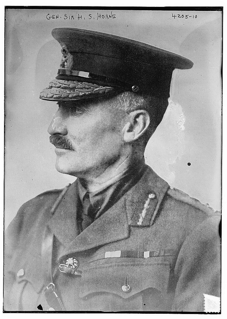 General Henry Sinclair Horne, 1st Baron Horne in 1917